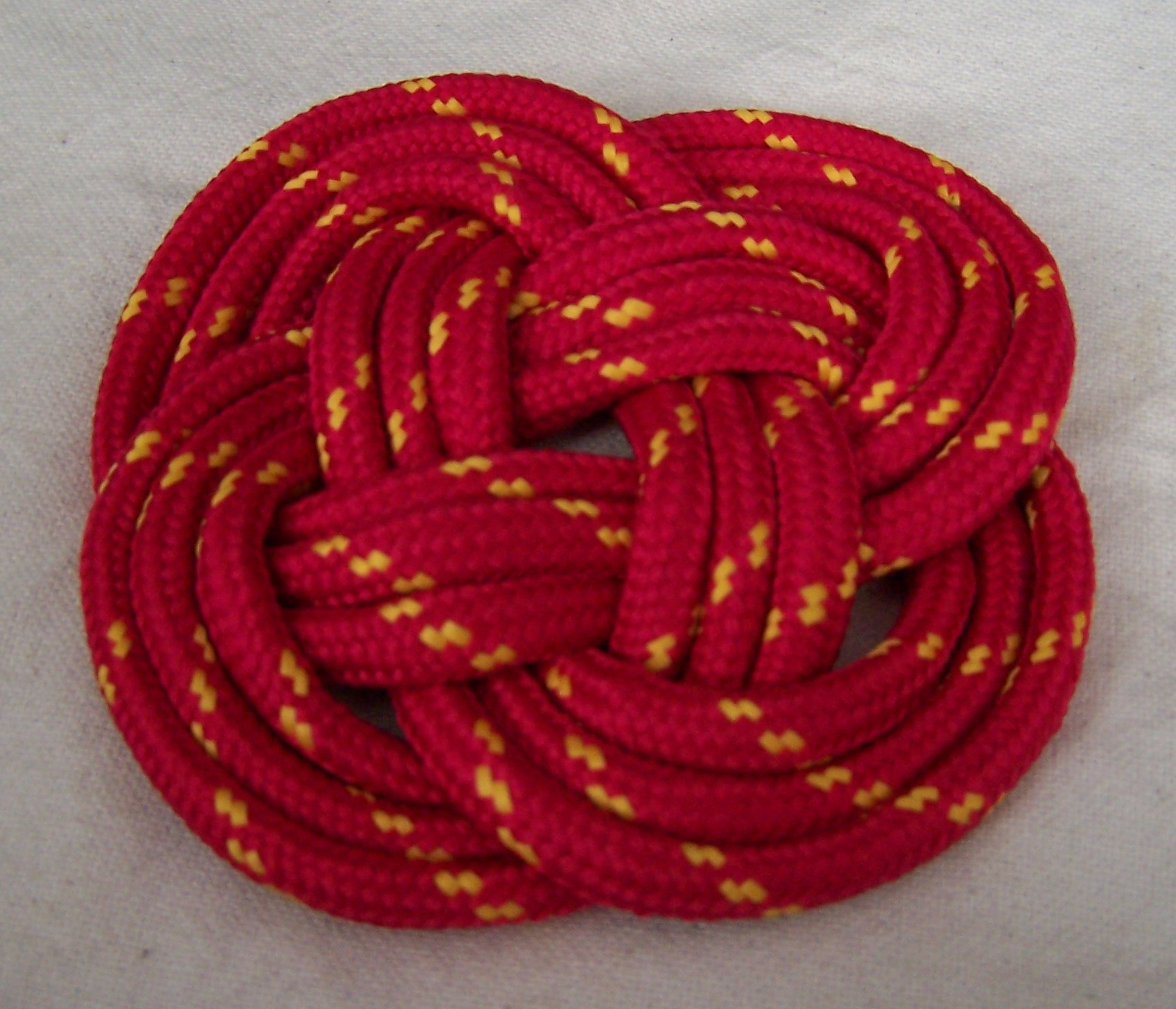 A skipping rope tied into a carrick mat